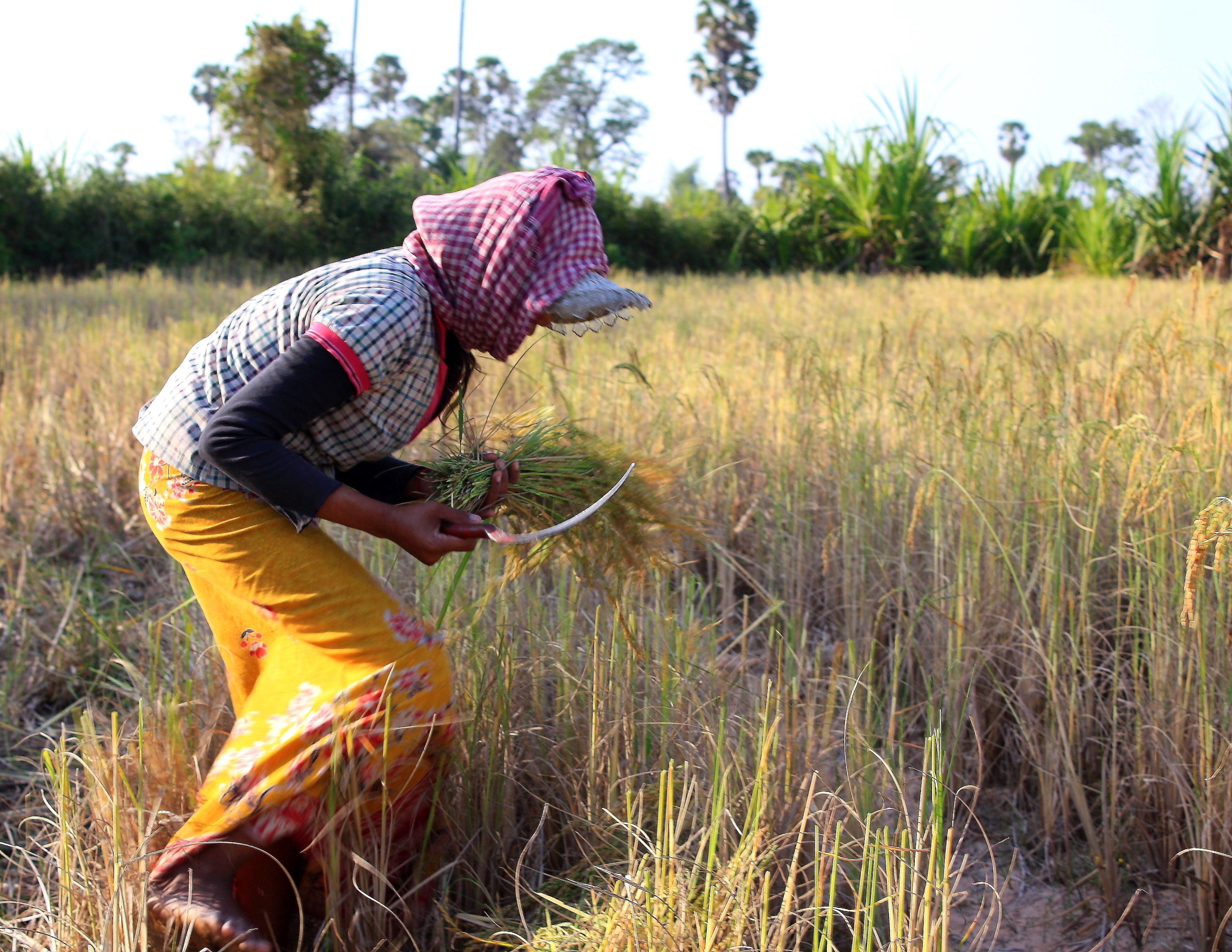 Harvesting the Rice ...CambodiaBân-lâm-gú: 割稻仔。（佇柬埔寨(Cambodia)）